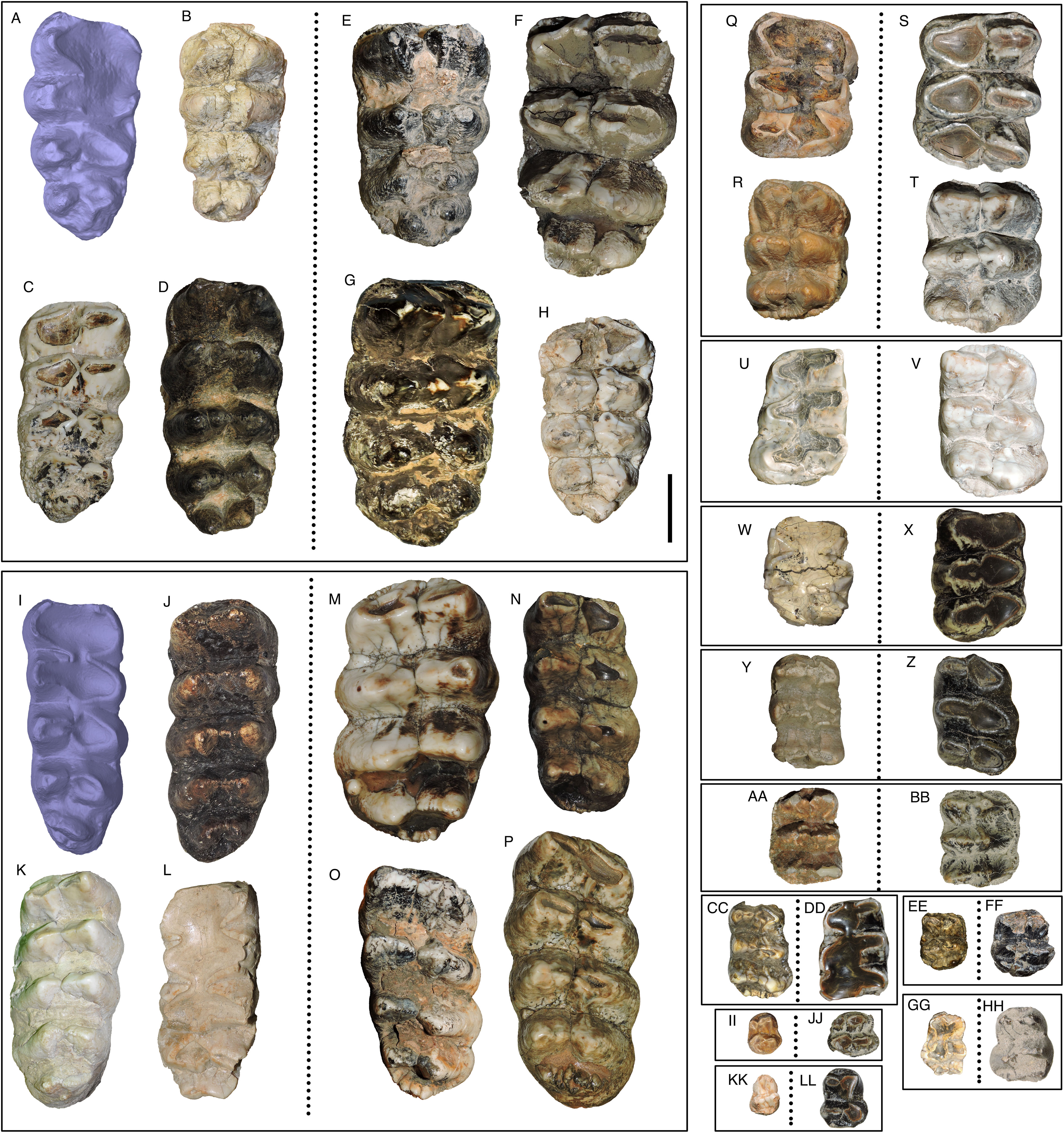 Comparison of sample teeth from Mammut pacificus and Mammut americanum. Mammut pacificus: (A–D) M3; (I–L) m3; (Q and R) M2; (U) m2; (W) M1; (Y) m1; (AA) dP4; (CC) dp4; (EE) dP3; (GG) dp3; (II) dP2; (KK) dp2 Mammut americanum: (E–H) M3; (M–P) m3; (S and T) M2; (V) m2; (X) M1; (Z) m1; (BB) dP4; (DD) dp4; (FF) dP3; (HH) dp3; (JJ) dP2; (LL) dp2 Remarks: (A-H): Note the presence of a fifth loph in (C and D), and the weak to absent cingulum in all four M. pacificus specimens (contrast with the strong cingulum development in F). (I-P): Note the absence or weak development of a cingulum in (I–L), and the variable morphology of the posterior to the fourth lophid, particularly in M. americanum (Q and R): Note the weak cingulum development in (Q) and strong development in (R) (EE-FF): Note the partial third loph in both taxa (GG-HH): Note the partial third lophid in both taxa Scale 10 cm